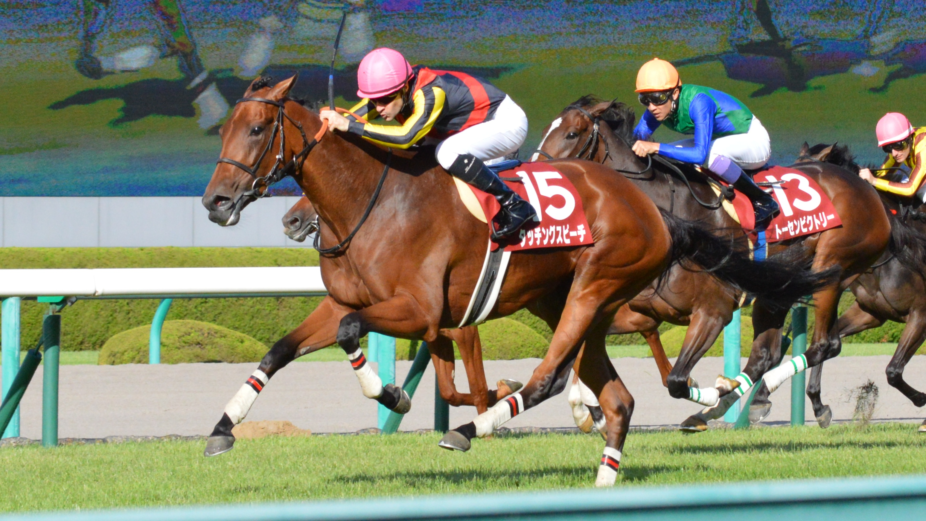 Japanese race horse Touching Speech at Hanshin racecourse.